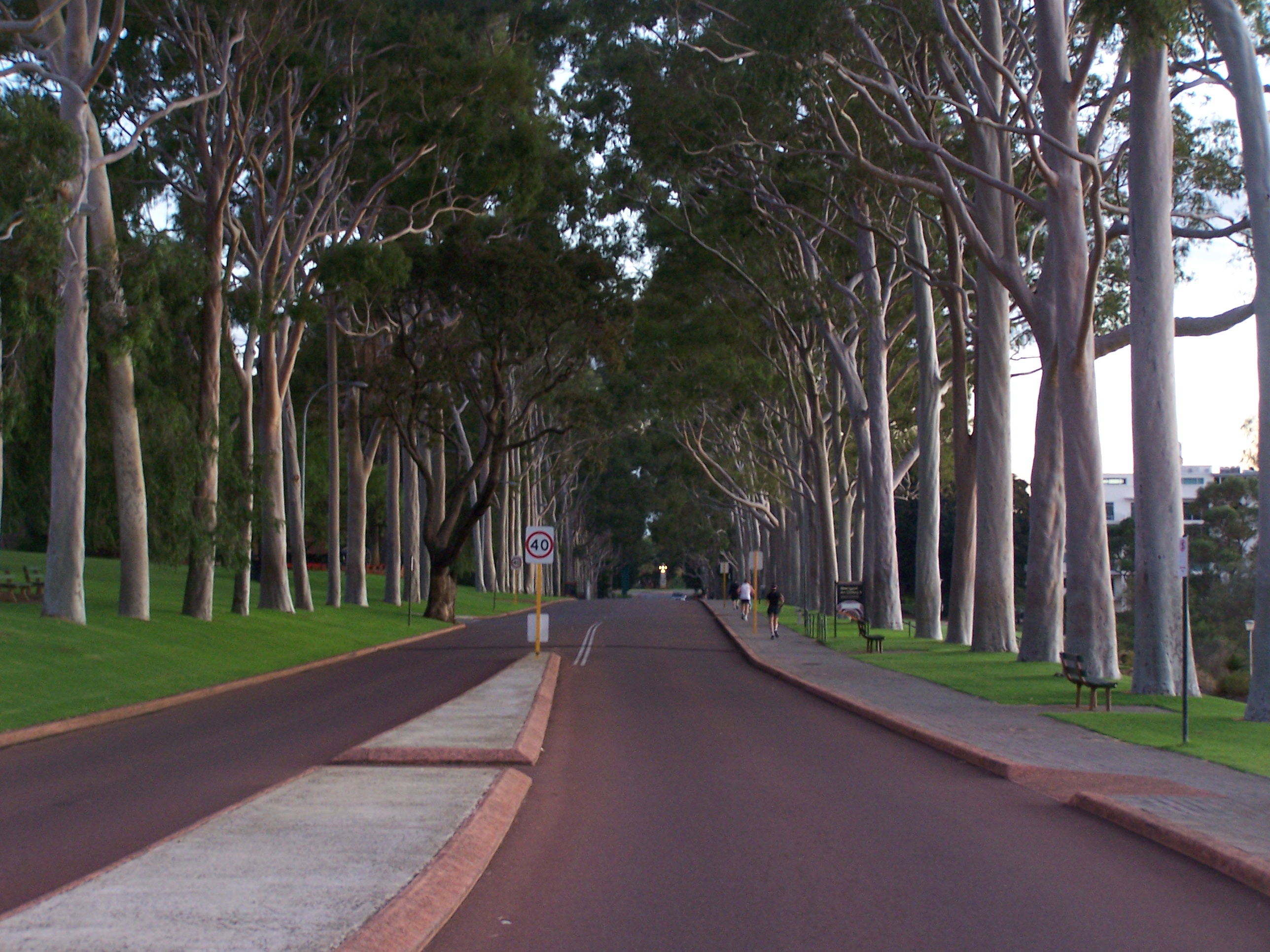 Fraser Avenue in Kings Park, Western Australia. The avenue is lined with Corymbia citriodora, an introduced species from Queensland, which were planted in an anniversary ceremony of the parks founding.